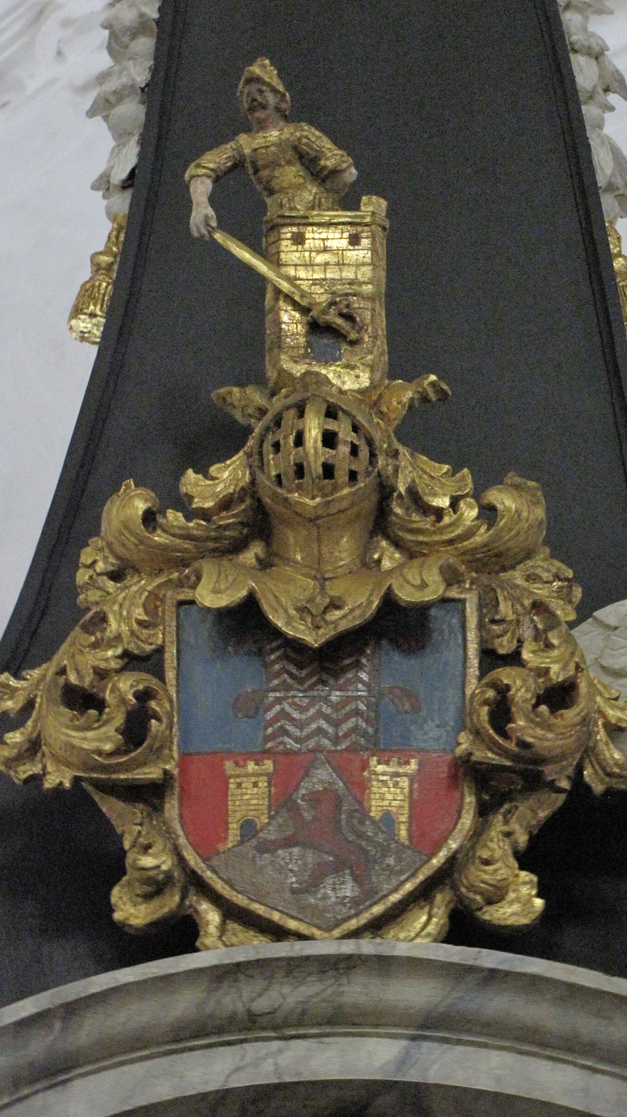 Coat of arms of Gusmann family (Johann Georg Gutzmer) in Lübeck cathedral